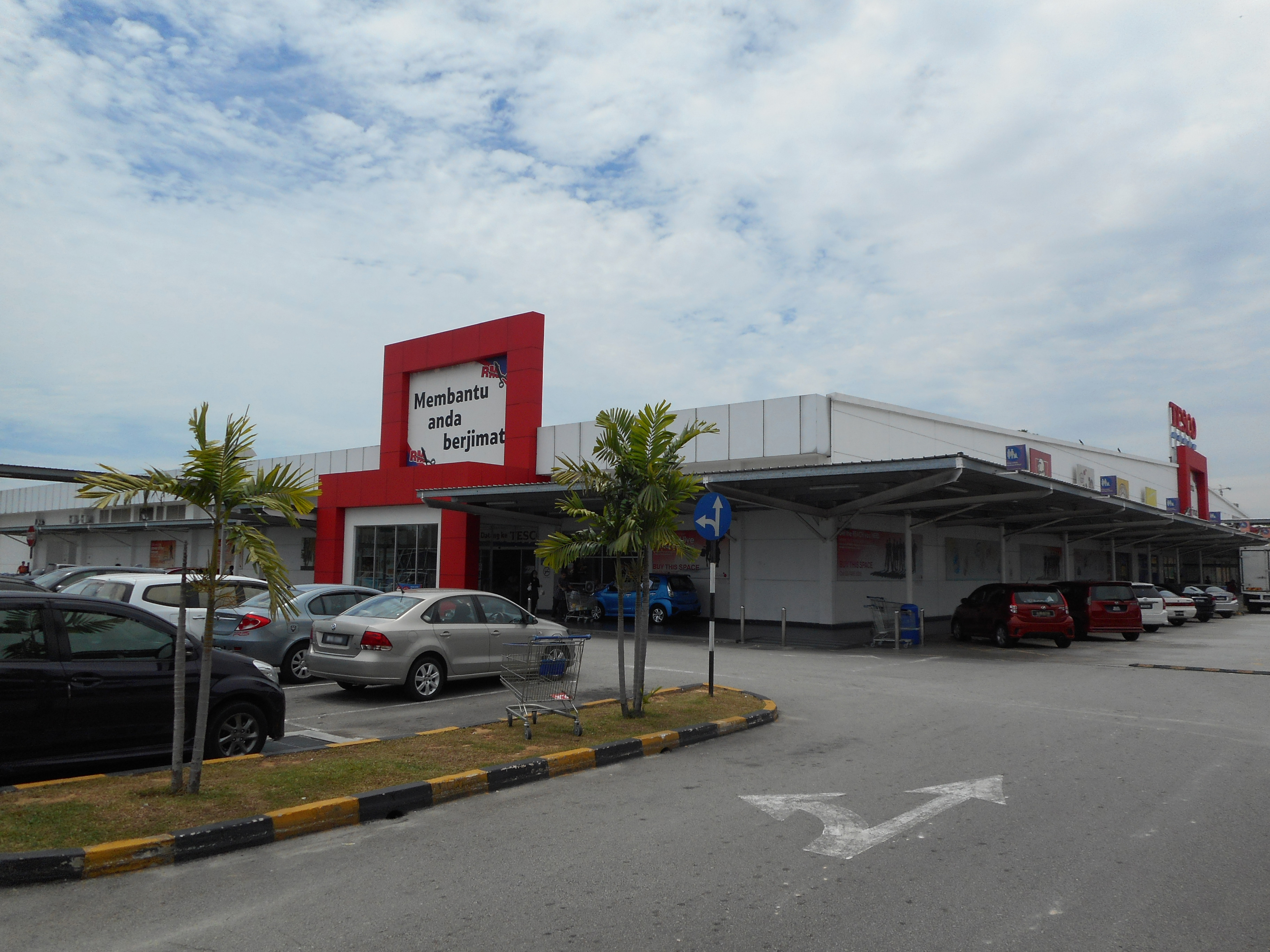 Tesco Nilai, Nilai, Seremban, Negeri Sembilan, Malaysia